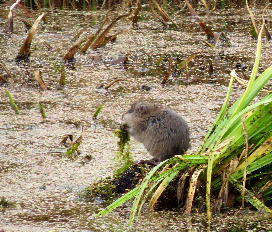 Microtus oeconomus in Kobylka lake, Vyshhorod raion, Kiev oblast, Ukraine